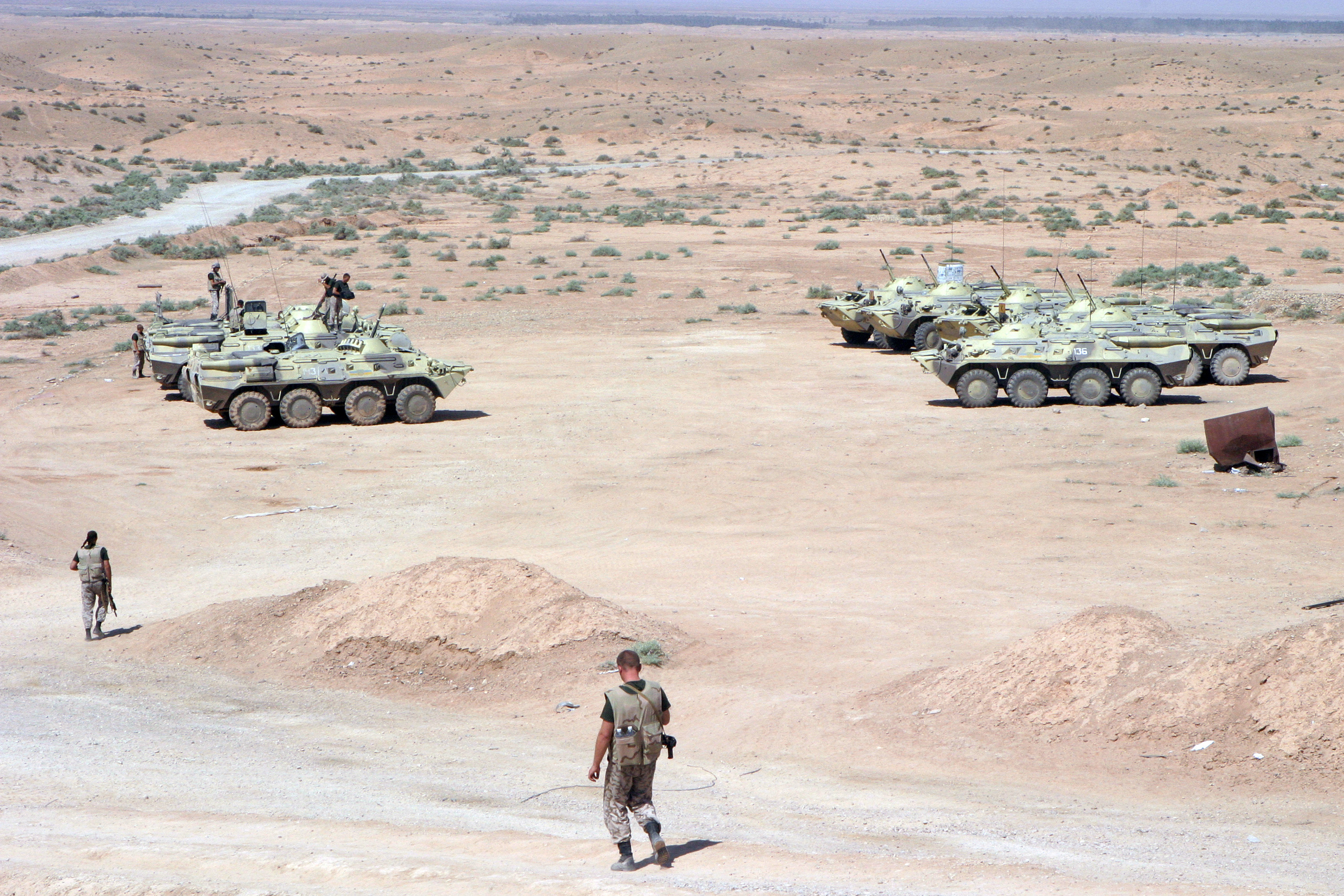 Ukraine Army soldiers service their BTR-80A armored personnel carriers after arriving at the Iran/Iraq border crossing located at Badrah, Iraq, during Operation IRAQI FREEDOM, as Ukraine Military Forces prepare to take command of the local area.